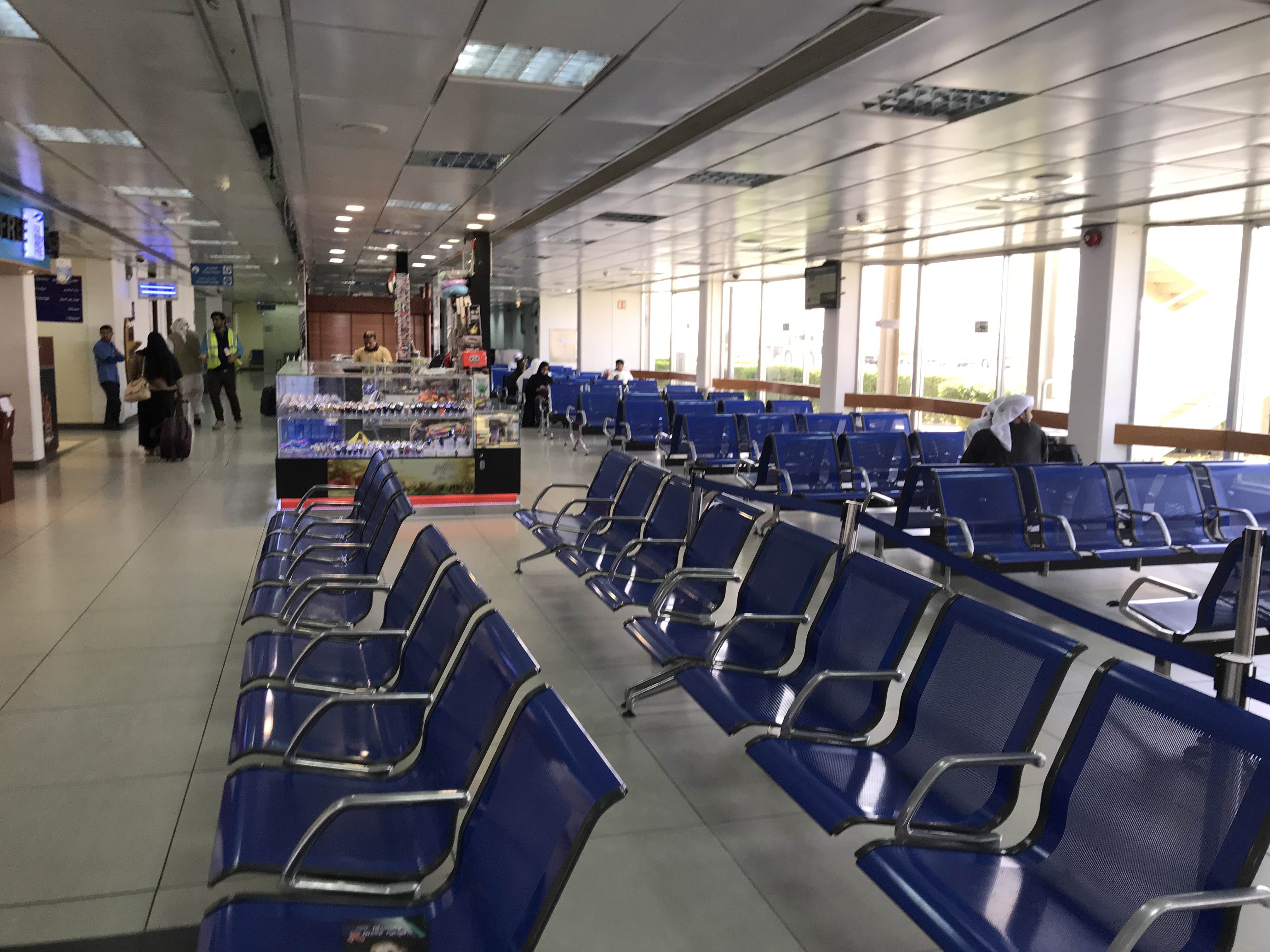 A look inside the terminal in Ras Al Khaimah Airport - Airside area